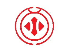 Flag of Ogano Saitama